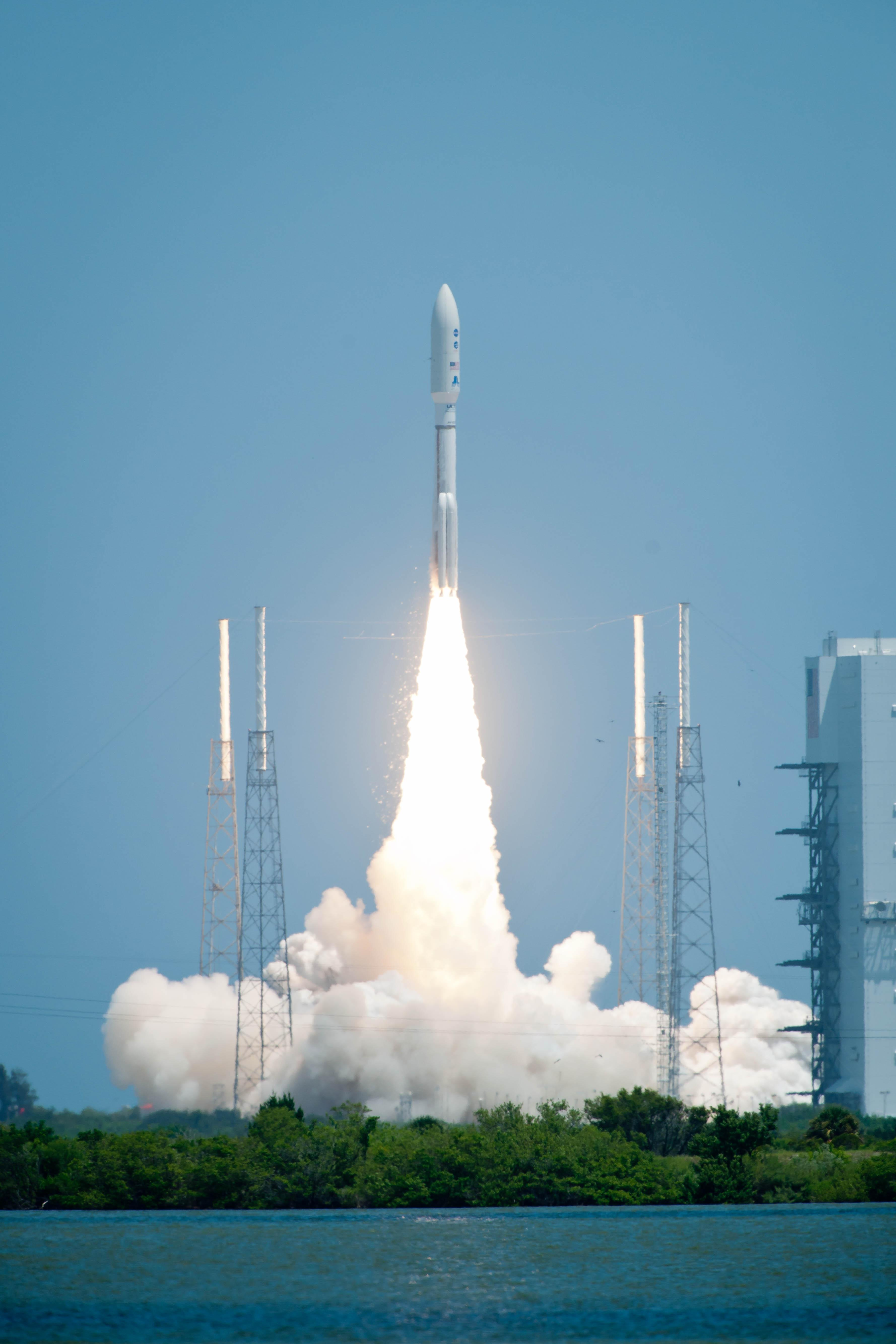 The Juno spacecraft launches aboard an Atlas V rocket from Space Launch Complex 41 at Cape Canaveral Air Force Station in Florida.